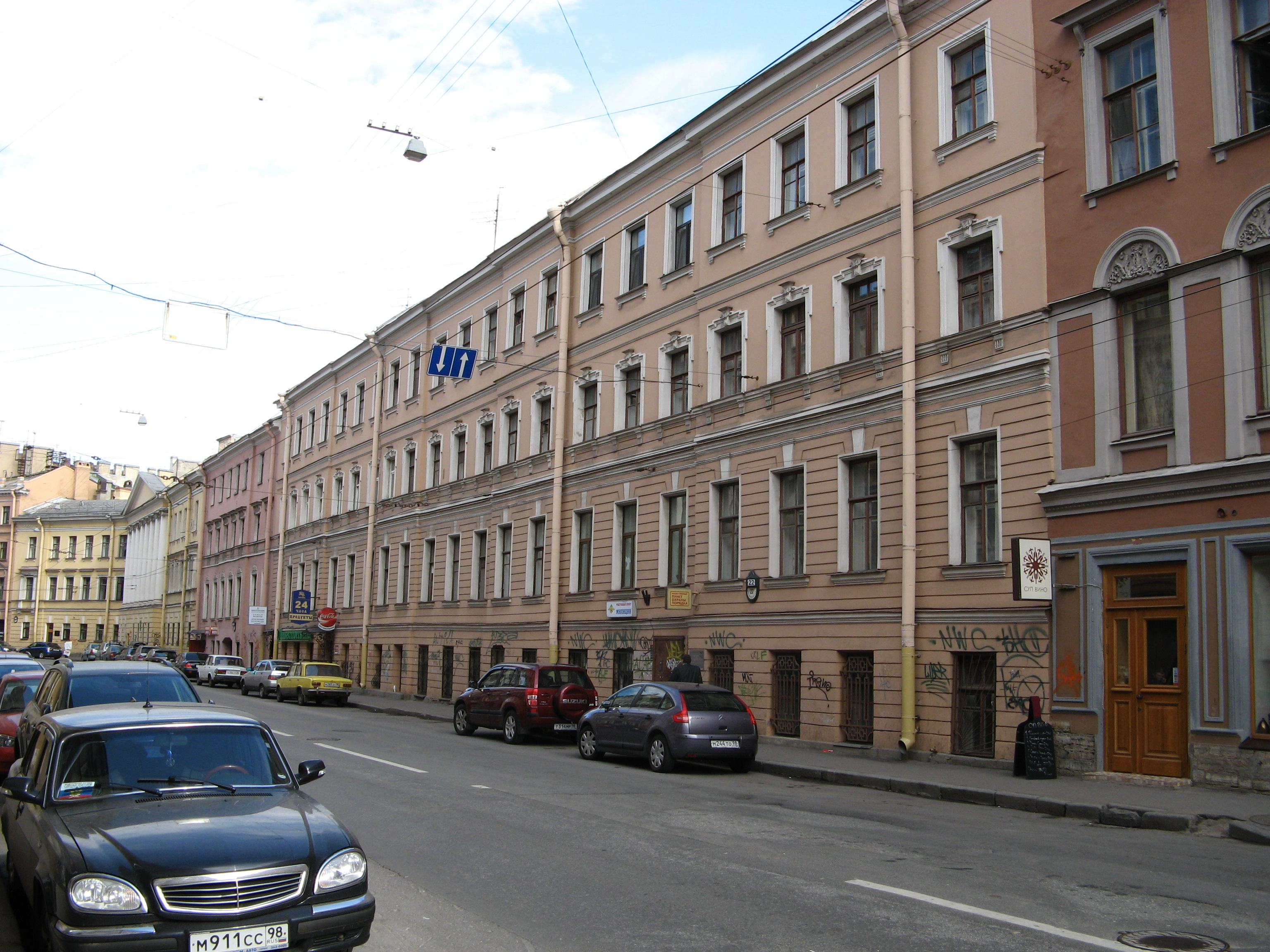 Kazanskaj street, 22 (Saint-Petersburg)